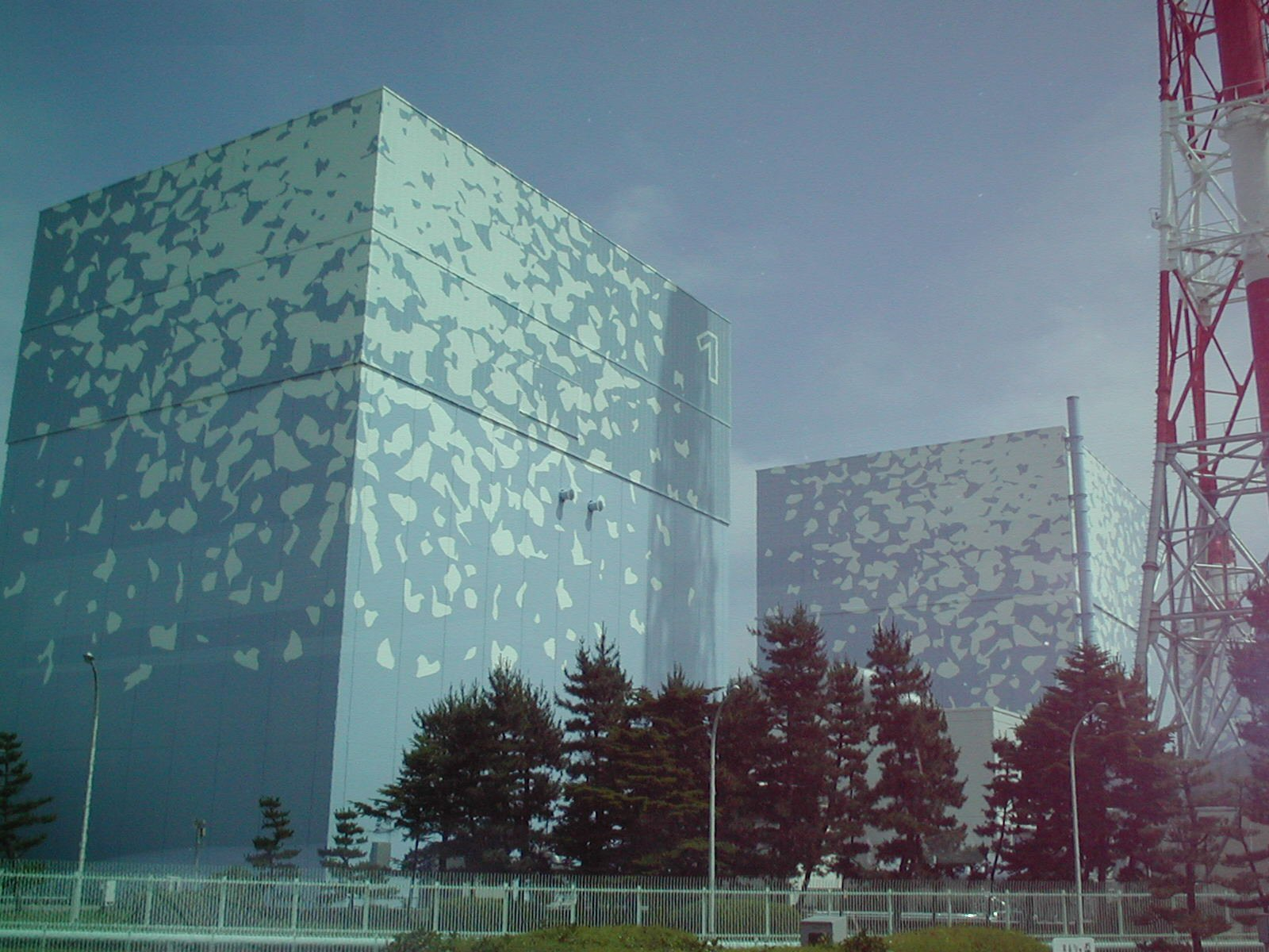 One of the photos taken at the Fukushima I Nuclear Power Plant tour sponsored by the Tokyo Electric Power Company on June 23, 1999.